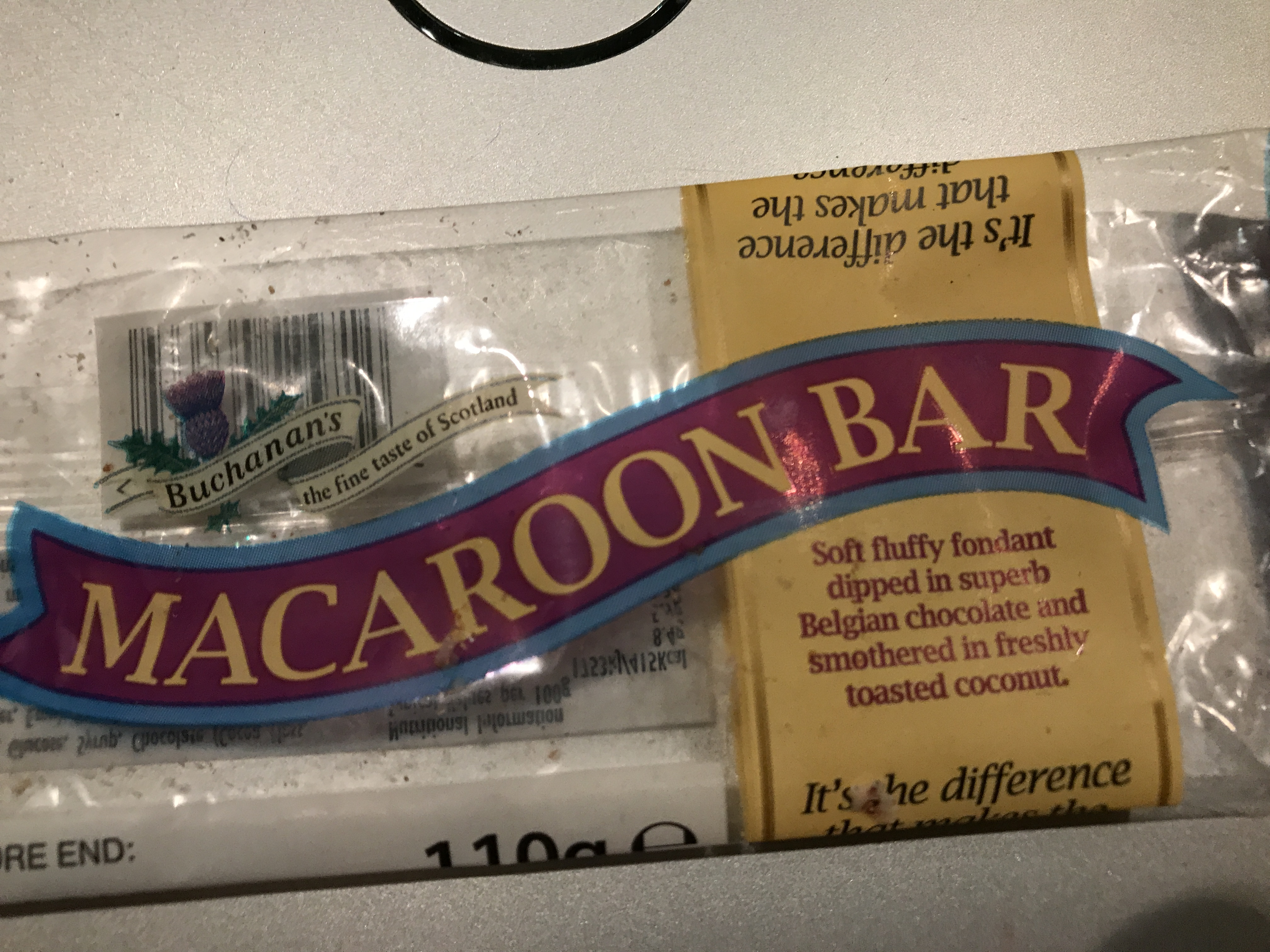 Macaroon Bar from Buchanan's of Greenock, Scotland